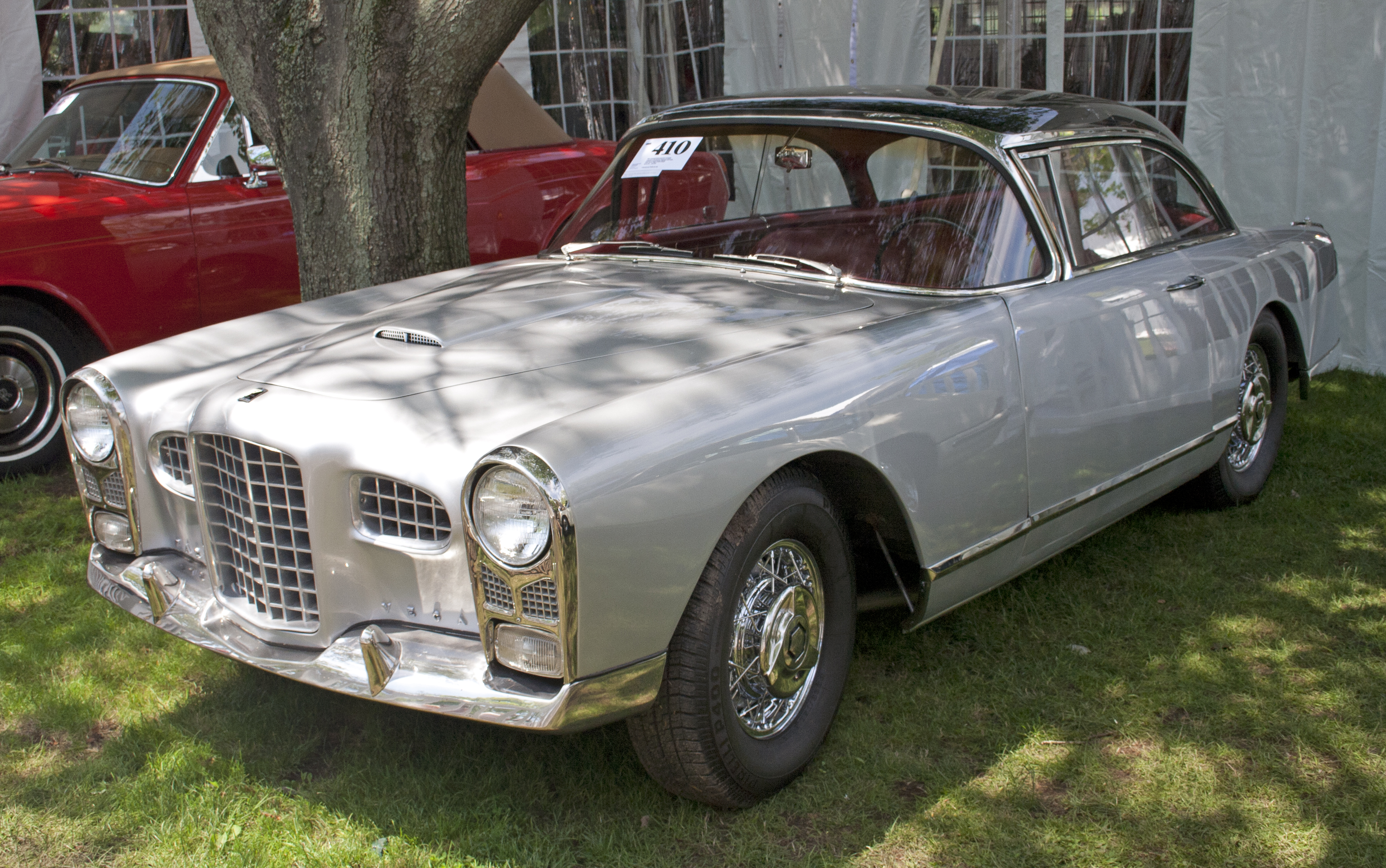 1956 Facel Vega FV2B (# 56-106) at the 2012 Greenwich Concours d'Elegance. Very unusual in being fitted with a manual transmission.